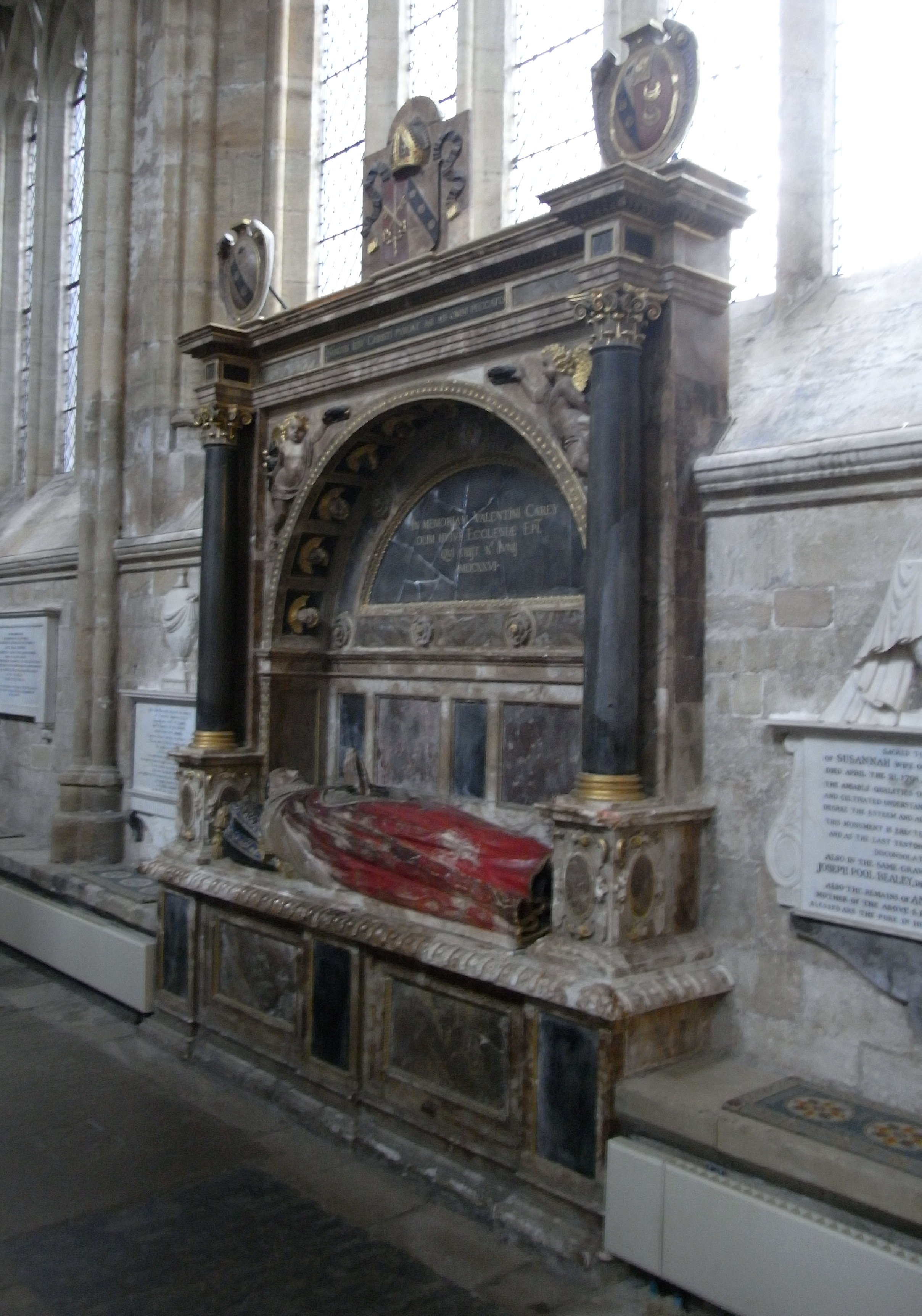 Monument to Valentine Cary (d.1626), Bishop of Exeter, Exeter Cathedral, north wall of north aisle.